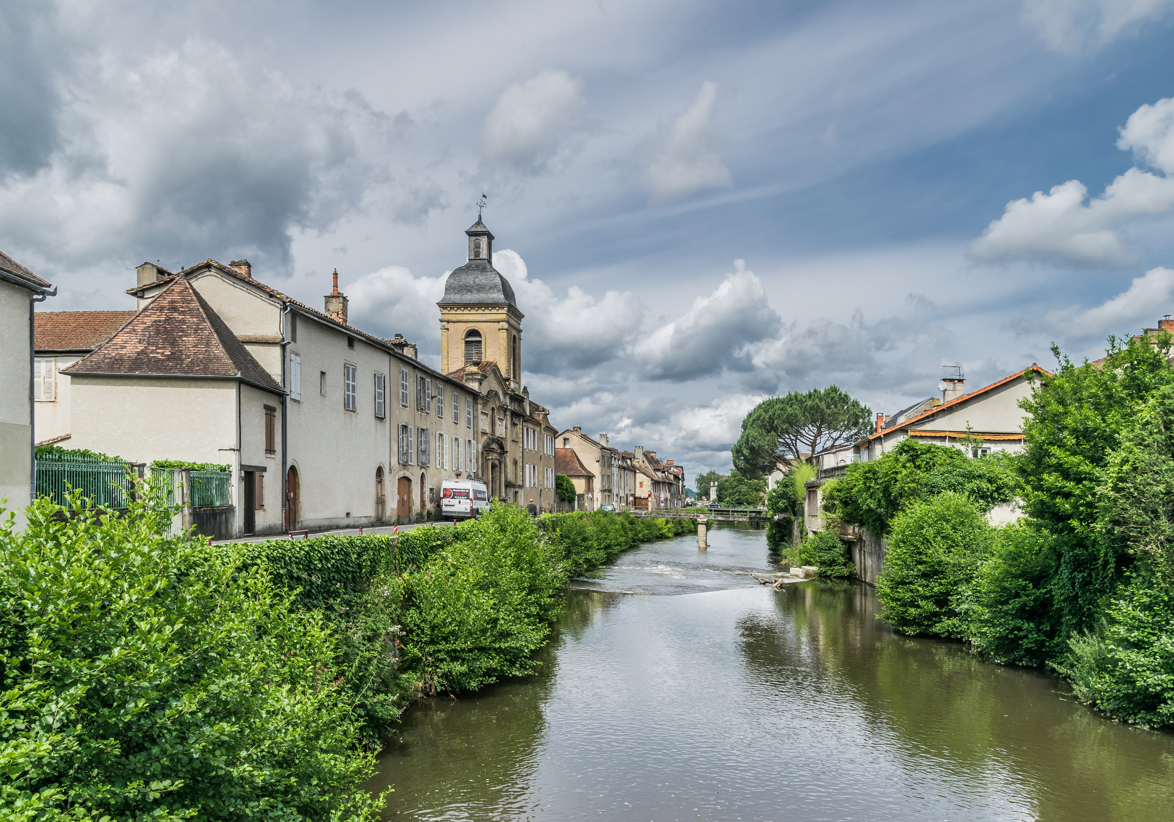 Bave River in Saint-Céré, Lot, France